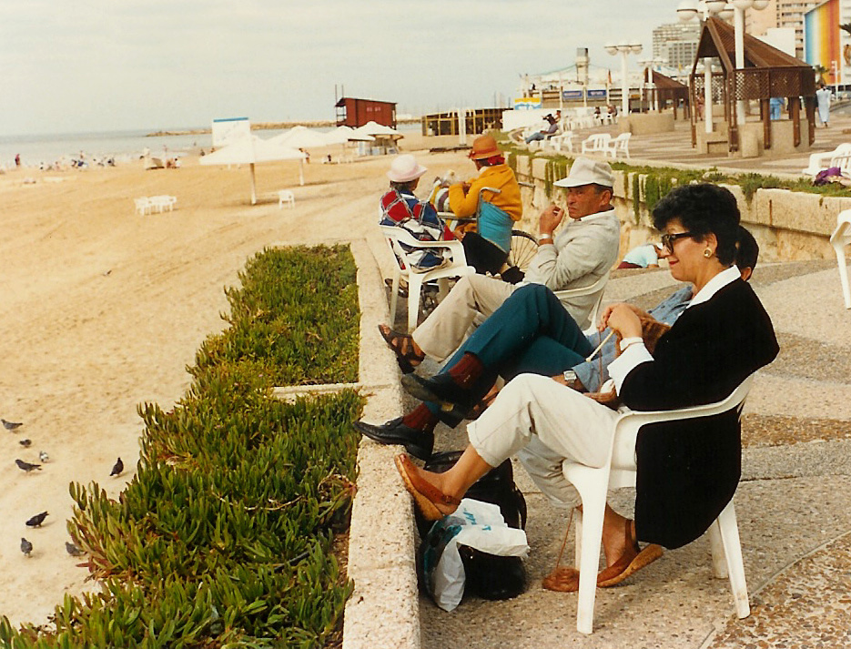 Israel, Tel Aviv, the beach